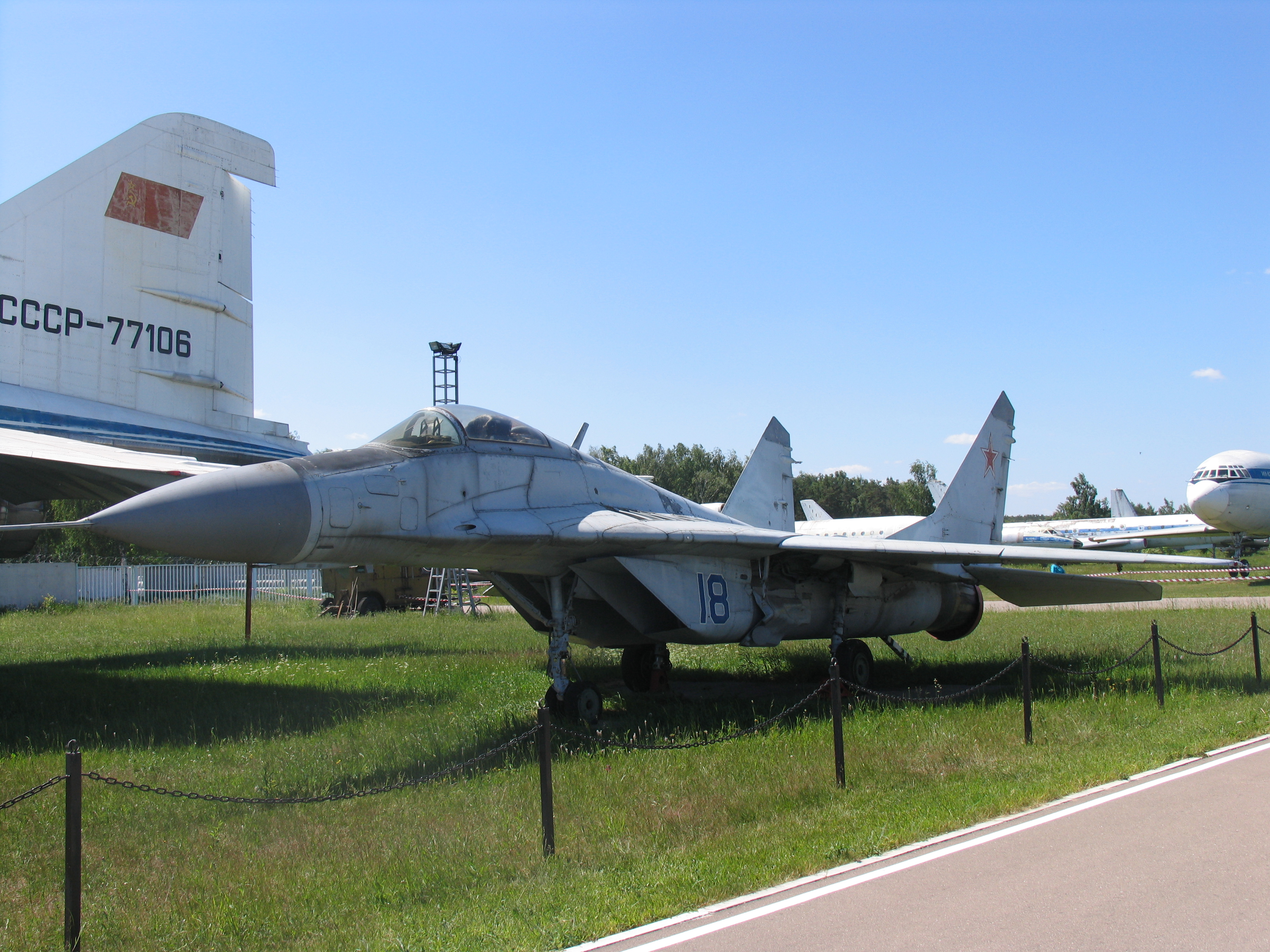 A MiG-29KVP ((KVP - Korotkaya Vzlet Posadka - Short take-off landing {STOL}) at Monino VVS museum